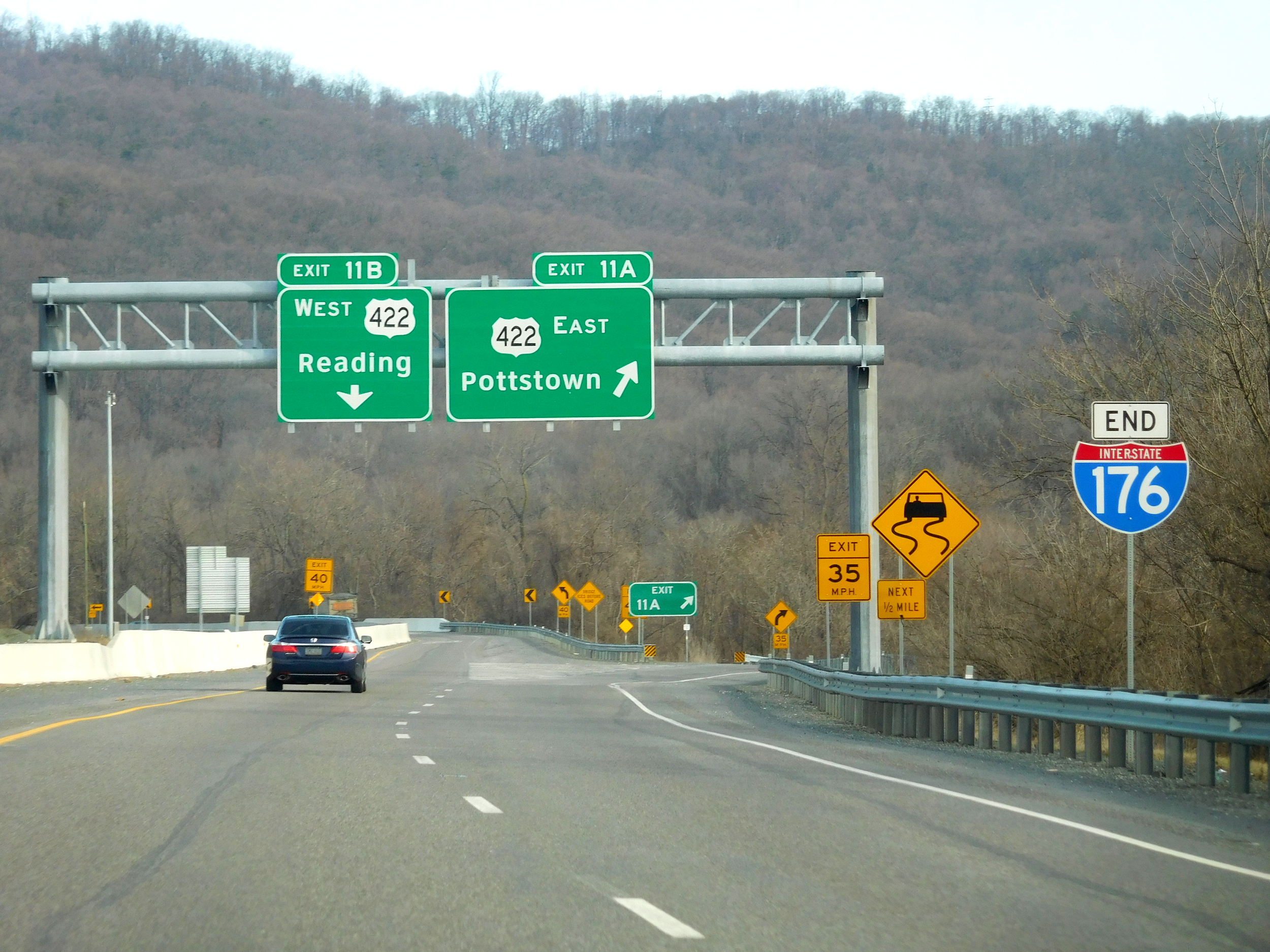 Interstate 176 northern terminus and end shield in Cumru Township, Berks County, Pennsylvania.